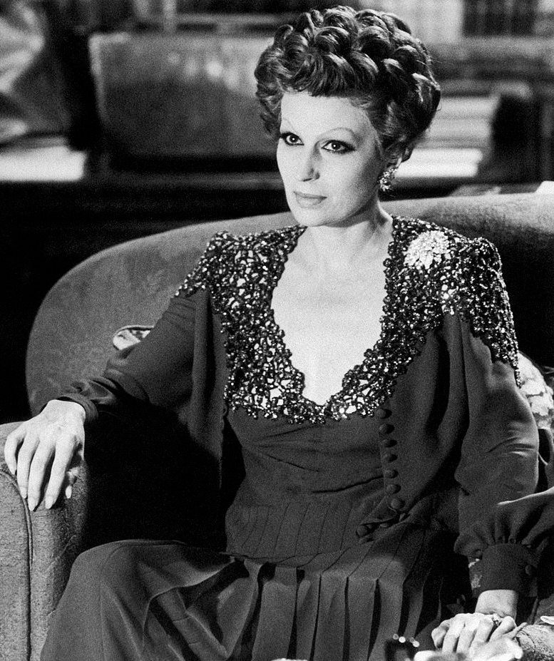 Italian actress Silvana Mangano sitting in an armchair in the film Conversation Piece. Rome, 1974